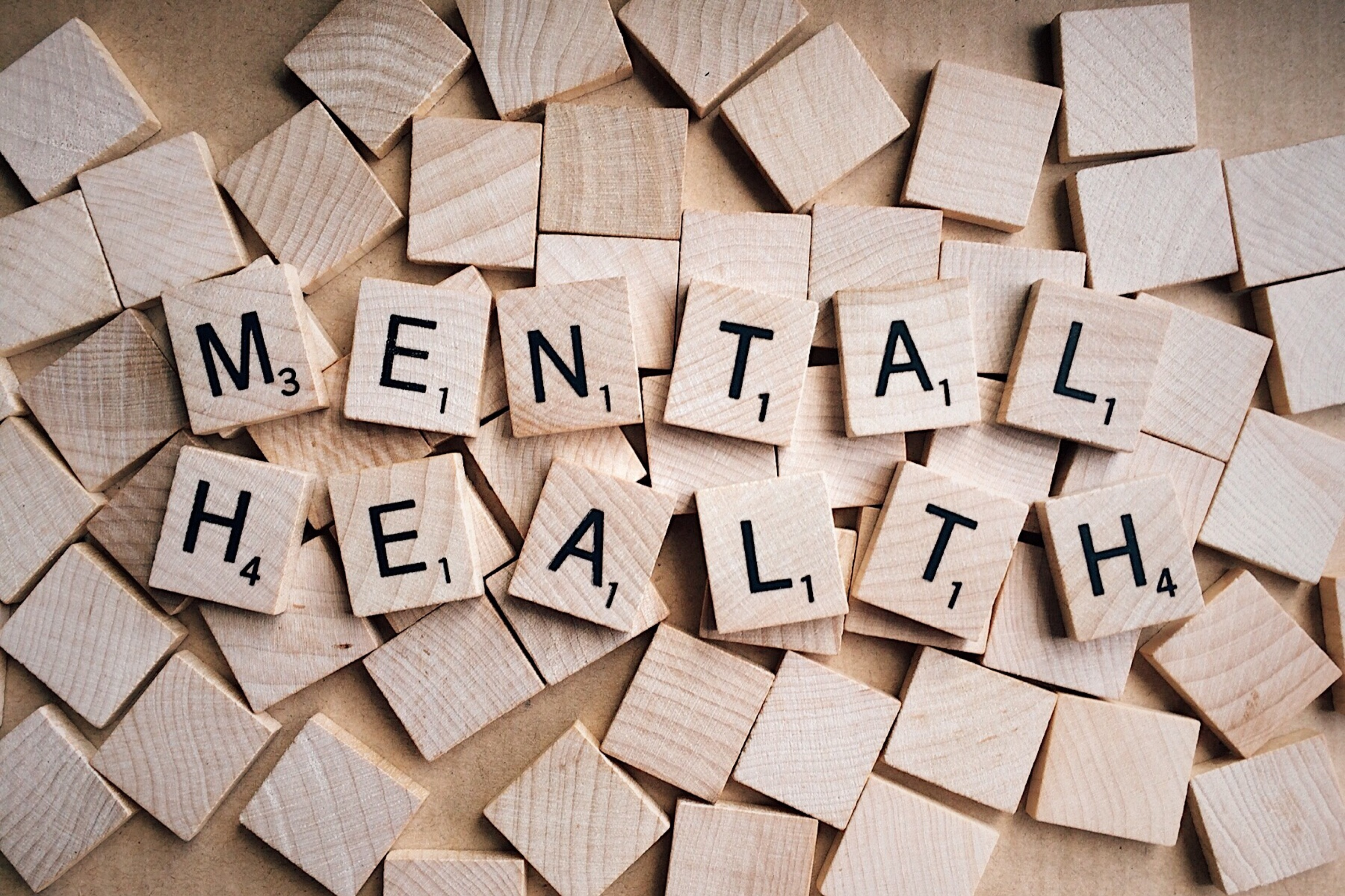 Mental Health Wellness Psychology Mind.